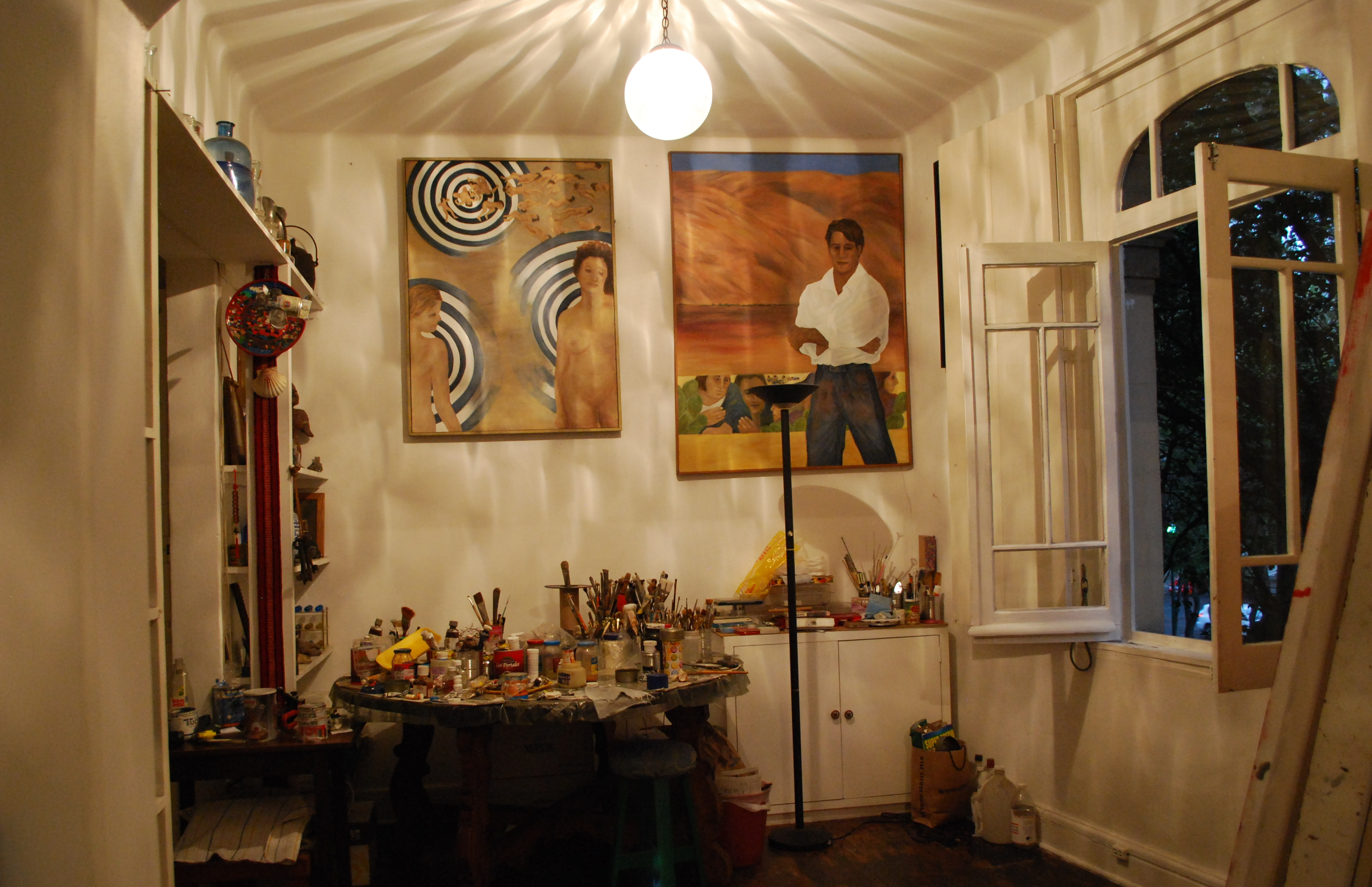 View of the studio of artist Helen Bickham in Mexico City